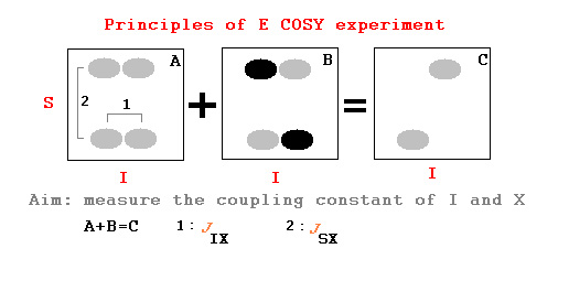 Image for E COSY experiment.